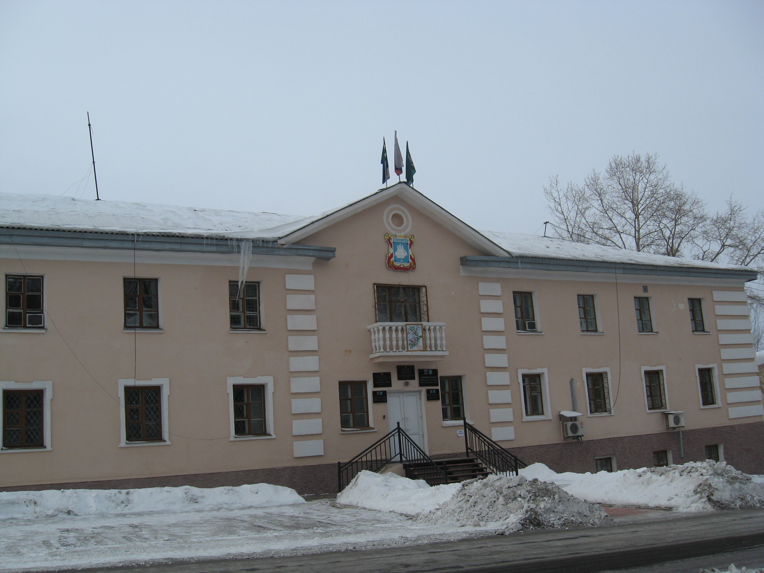 The Sity of Sovetskaya Gavan. Administration of the Sity